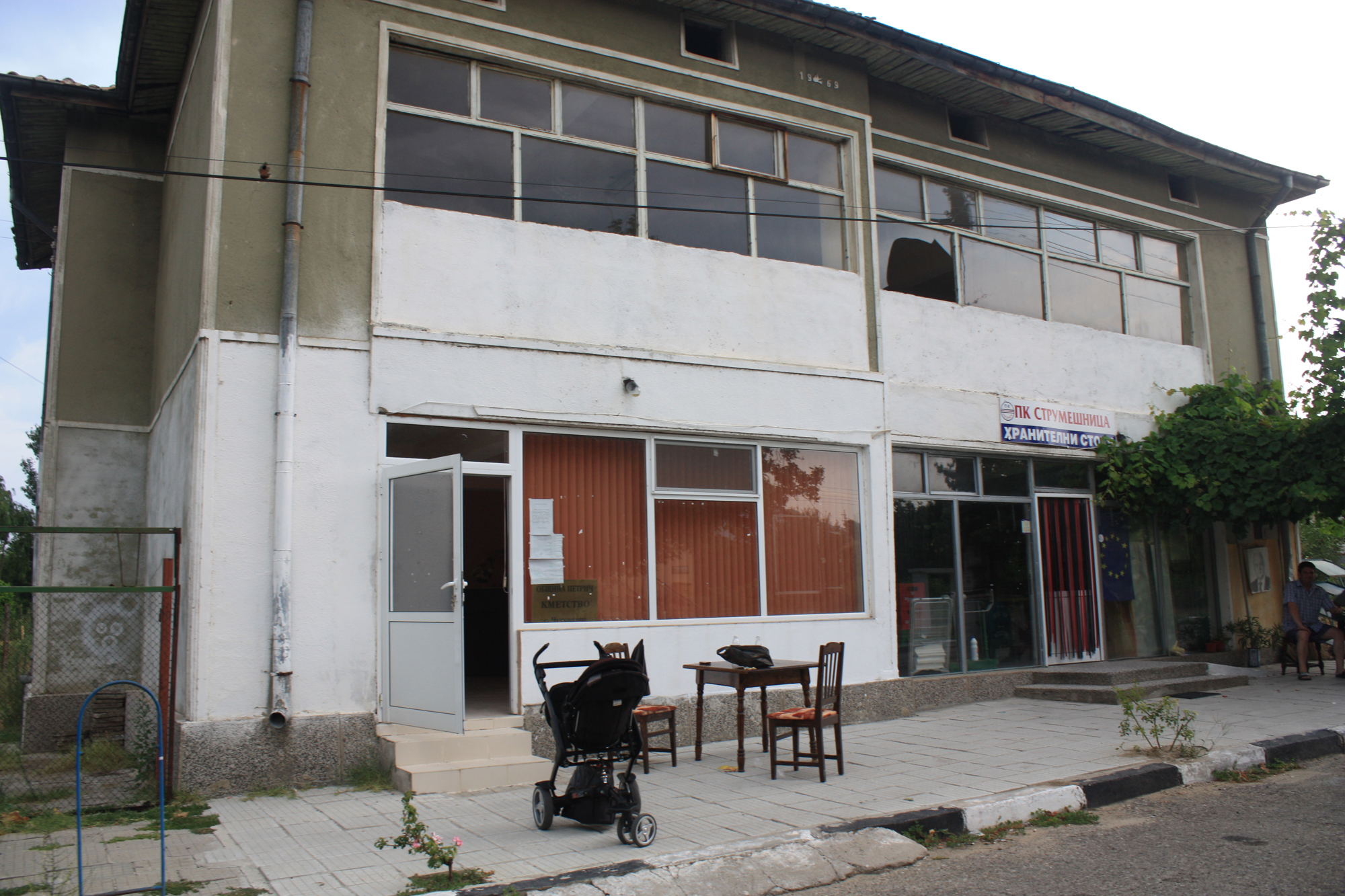 Municipality office (left) and shop (right) in Chuchuligovo, Bulgaria